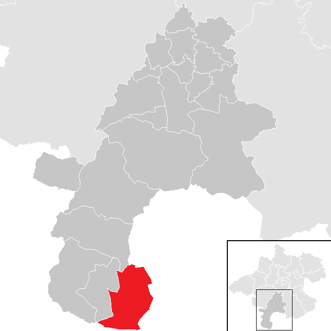 district Gmunden